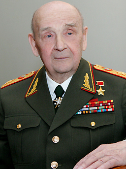 Cropped portrait of former Soviet Defense Minister, Marshal Sergey Sokolov